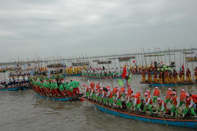 My Personal picture!